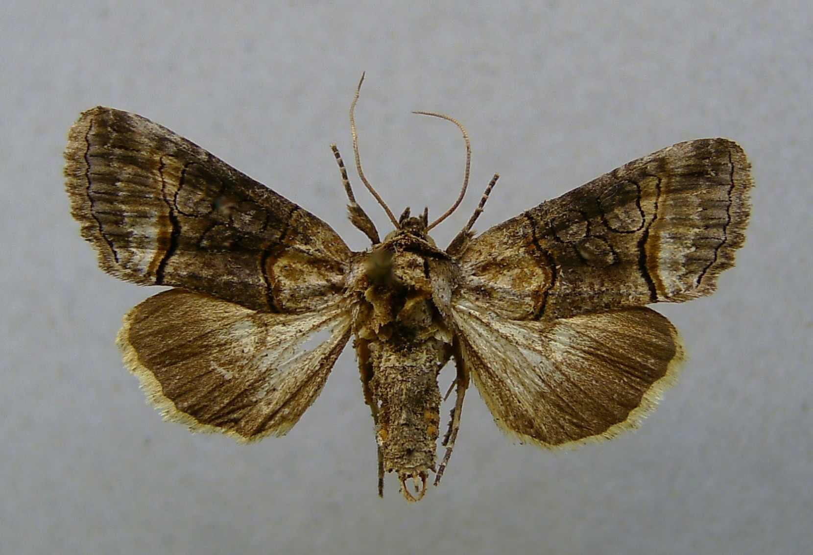 Abrostola asclepiadis, ex larva, Koserow, Germany